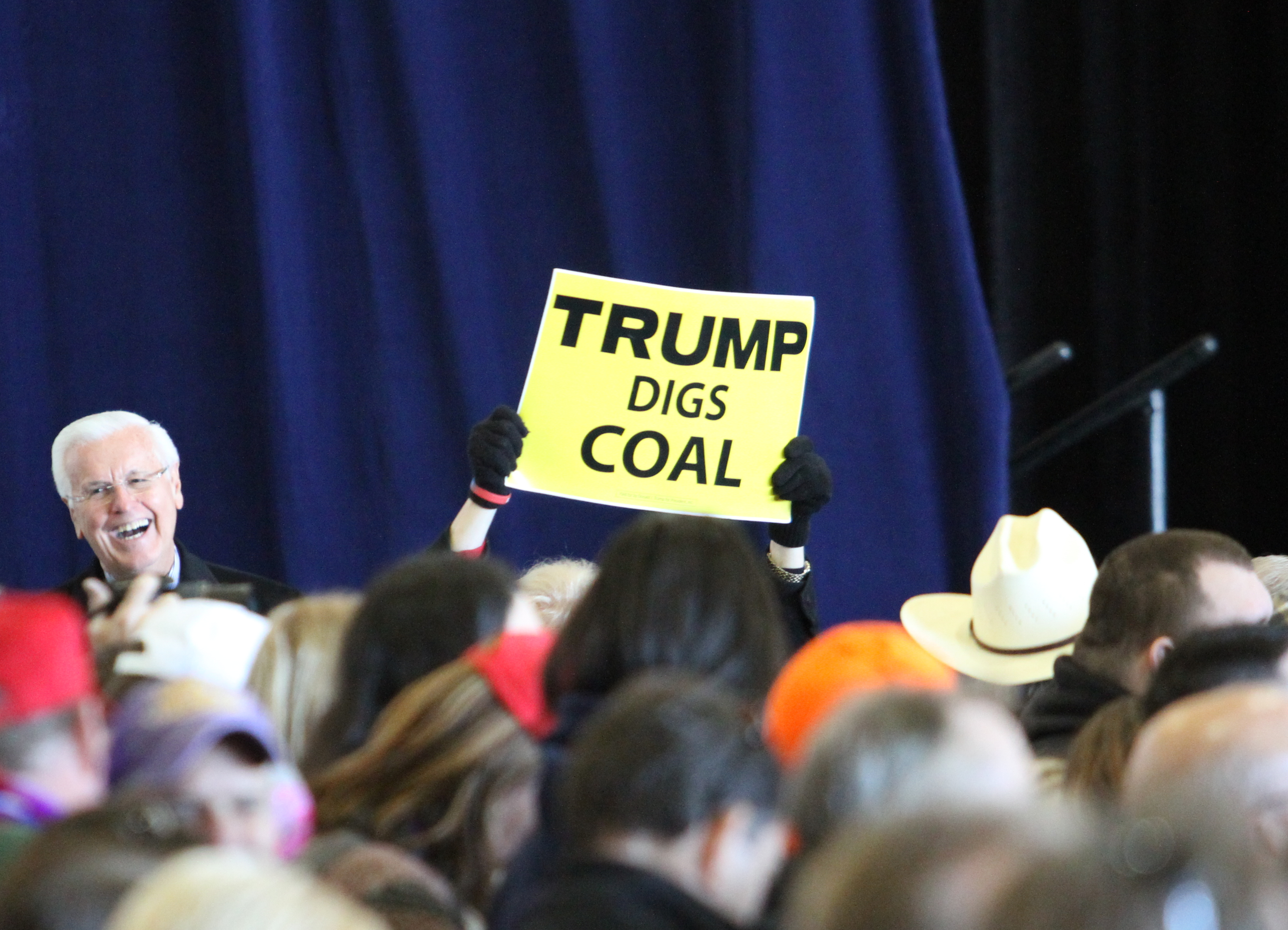 LAGOP Rally, December 9, 2016, Dow Hangar, Baton Rouge, Louisiana, Tammy Anthony Baker, Photographer